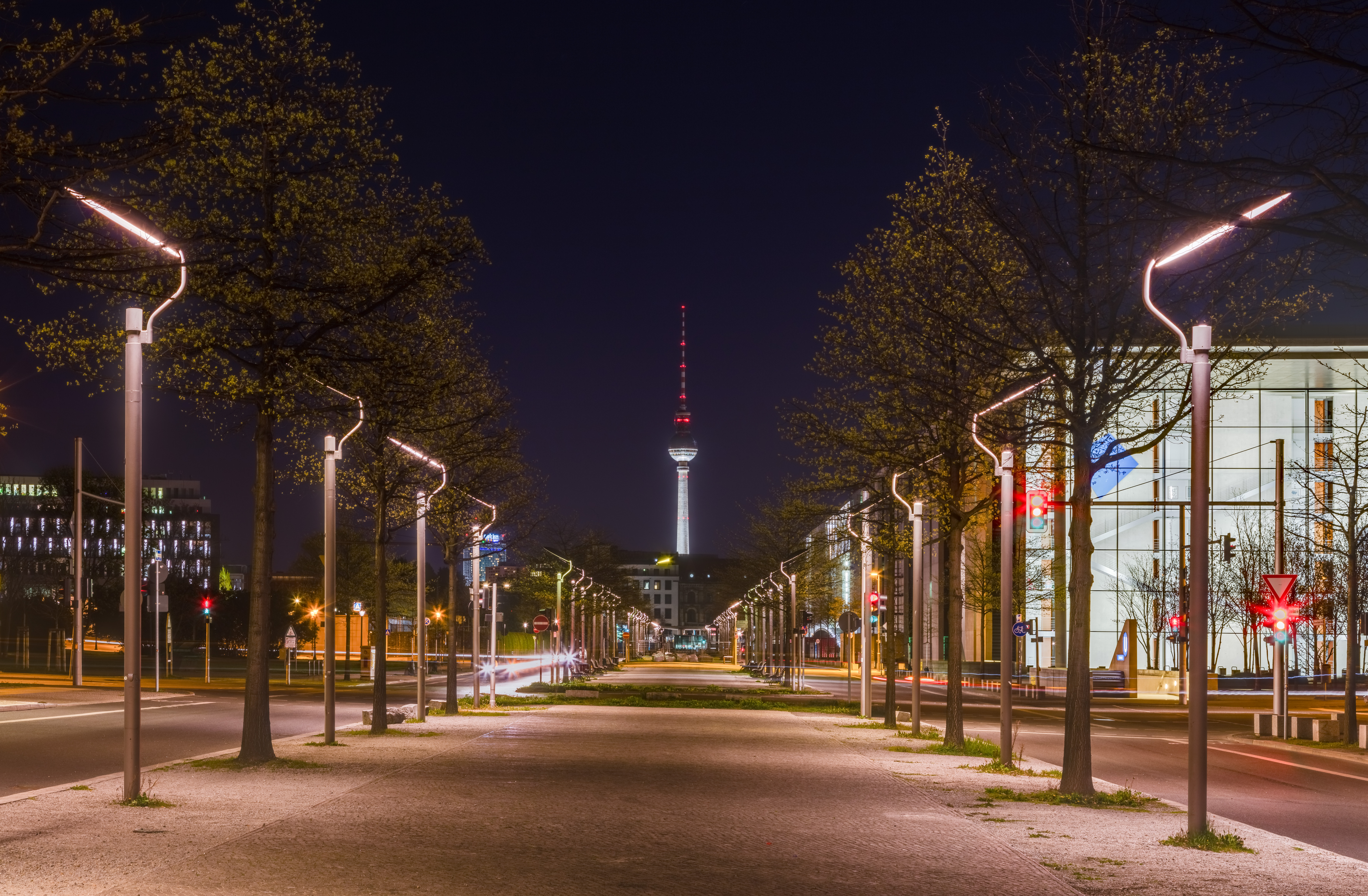 The Fernsehturm (in english "Television Tower") is a television tower located in central Berlin, not far from Alexanderplatz, Germany. The tower was constructed between 1965 and 1969 by the administration of the German Democratic Republic with the intention to became a symbol of Berlin, which it remains today. With its height of 368 metres (1,207 ft) (including antenna) it is the tallest structure in Germany, and the second tallest structure in the European Union just beaten by the Riga Radio and TV Tower, which is 50 centimetres (20 in) higher.